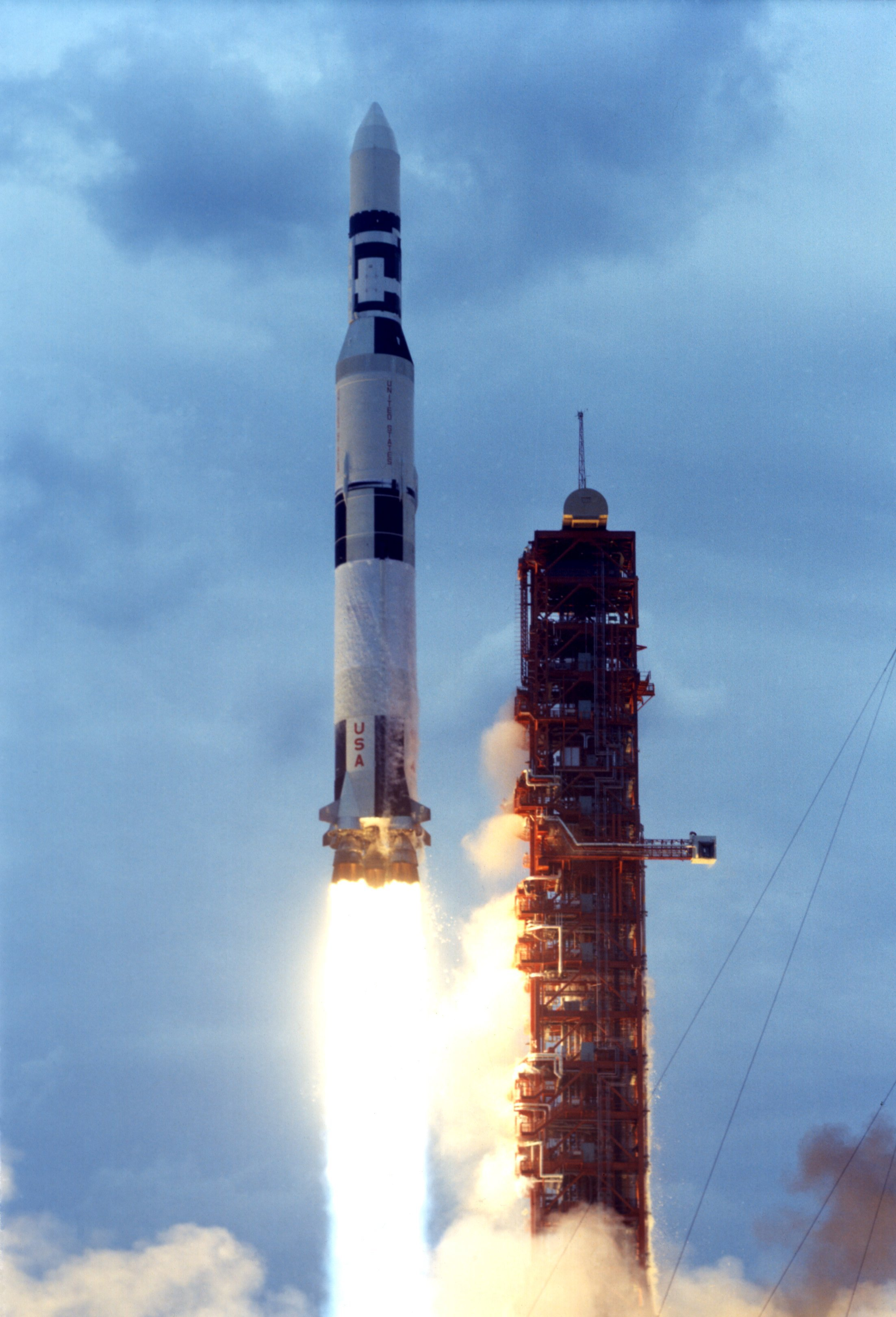 Saturn V SA-513 lifts off to boost the Skylab Orbital Workshop into Earth orbit.